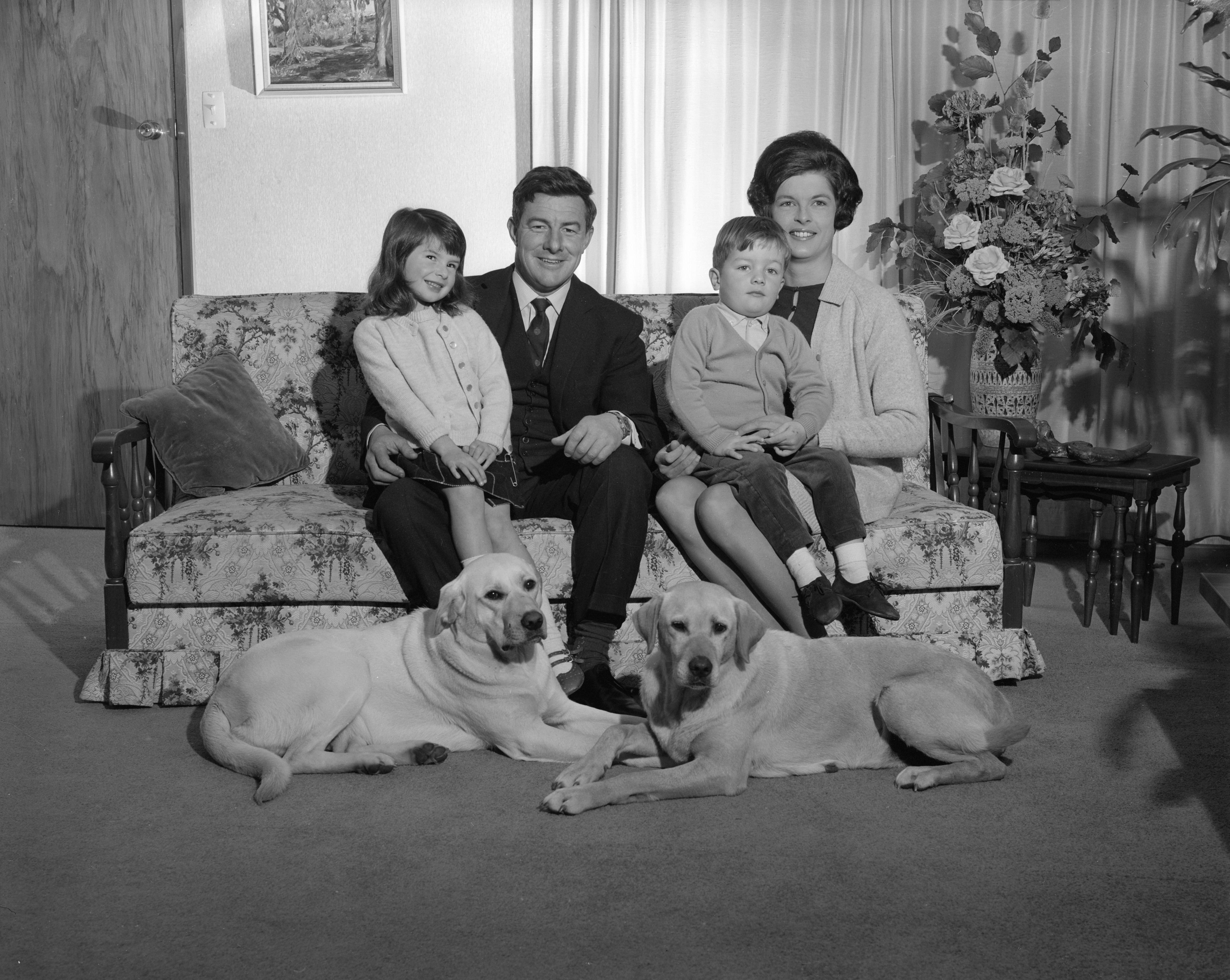 Trevor de Cleene and Family